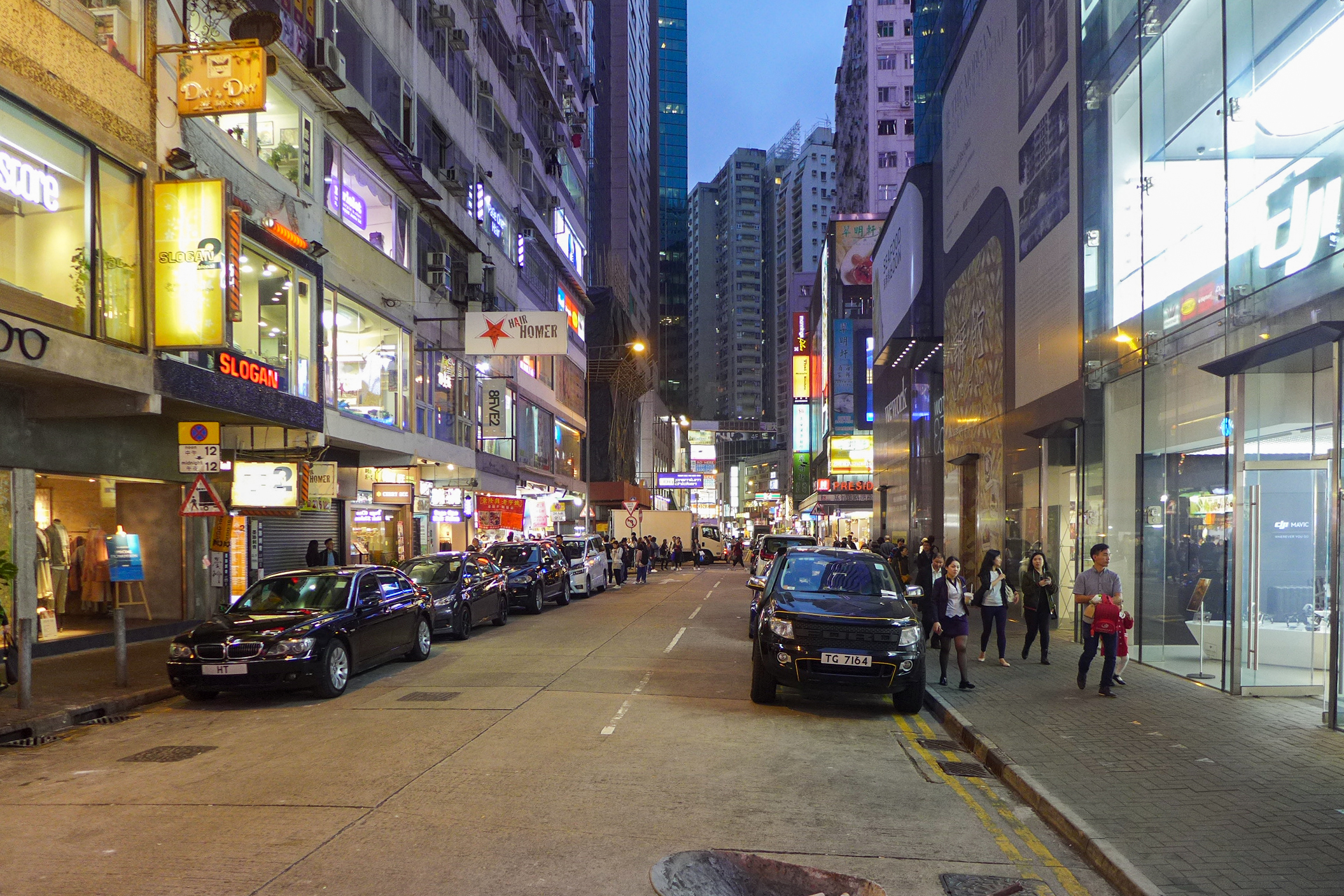 Jaffe Road in Causeway Bay